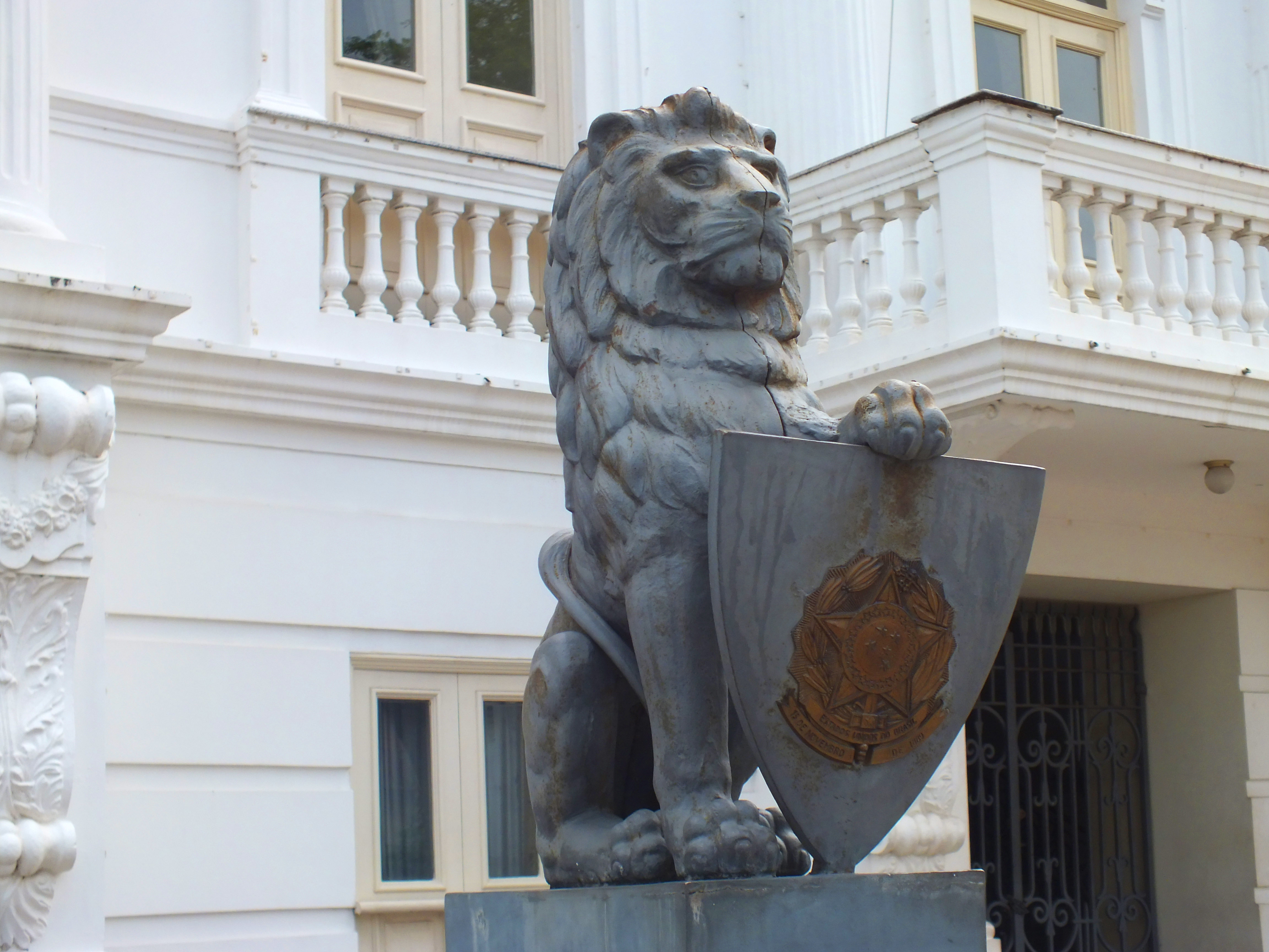 Lion statue in front of Palácio dos Leões in São Luís, Maranhão, Brazil